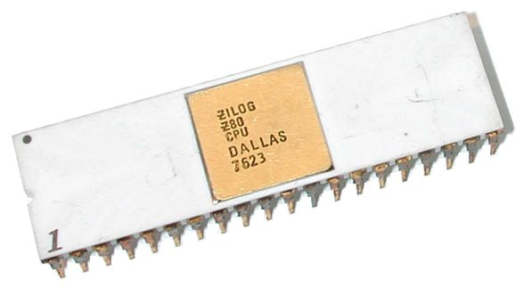 A very early version of the Zilog Z80 — note that the date stamp is from June 1976, and the Z80 was sold from July 1976 onwards. Photographed by Gennadiy Shvets. Taken from Licensing Email response from Gennadiy Shvets (2006-10-12): This image, as well as all other images posted on CPU-World (with the exception of images posted in comments or in the forum) were taken by me and have my copyright. Since the image of white-ceramic Z80 was already uploaded to Wikipedia, why don't you continue using it: I'm ok to license this image to Wikipedia using Creative Common License Attribution 1, Attribution 2 or Attribution 2.5.